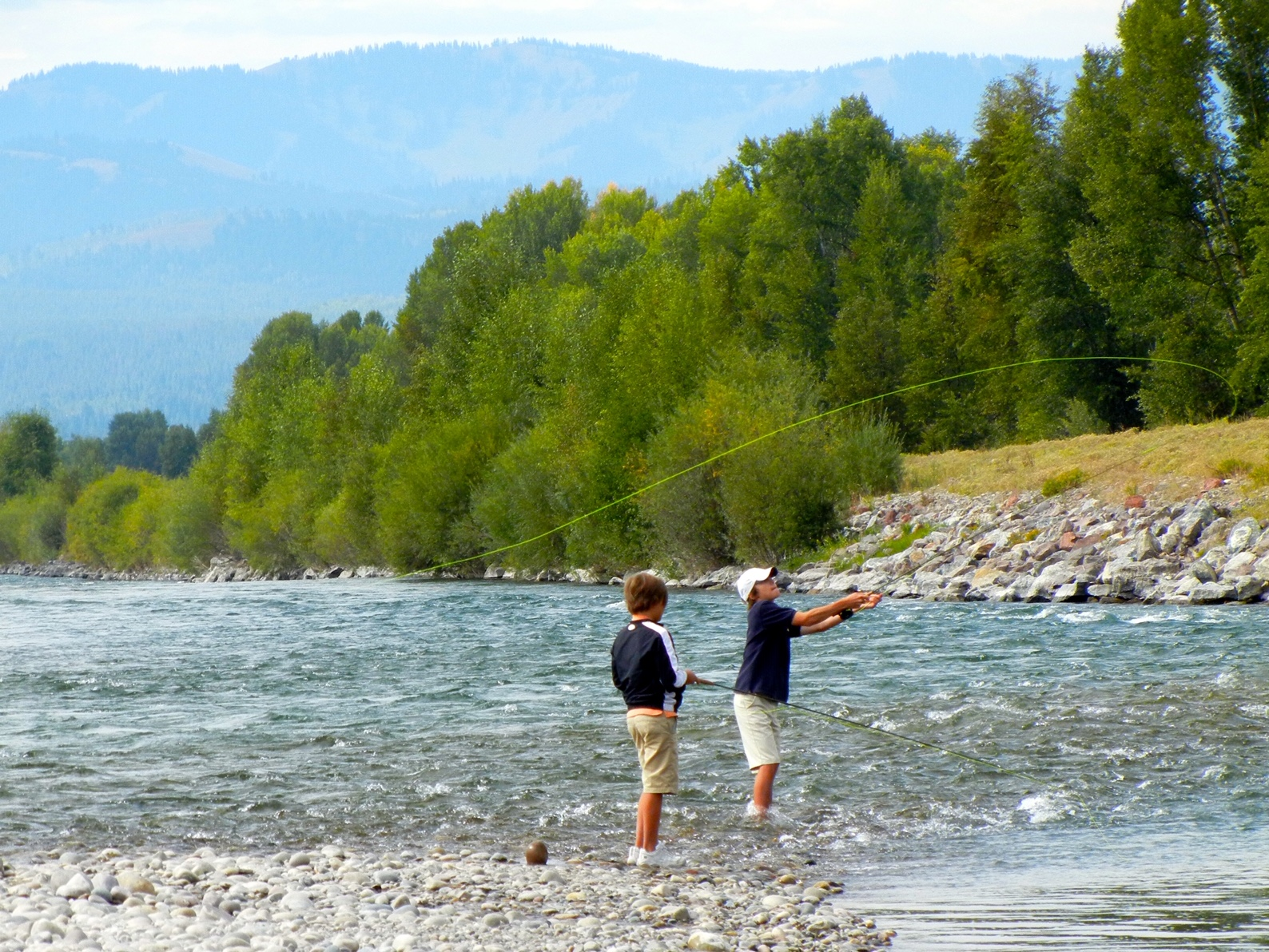 Fishing in the Snake River, Wyoming